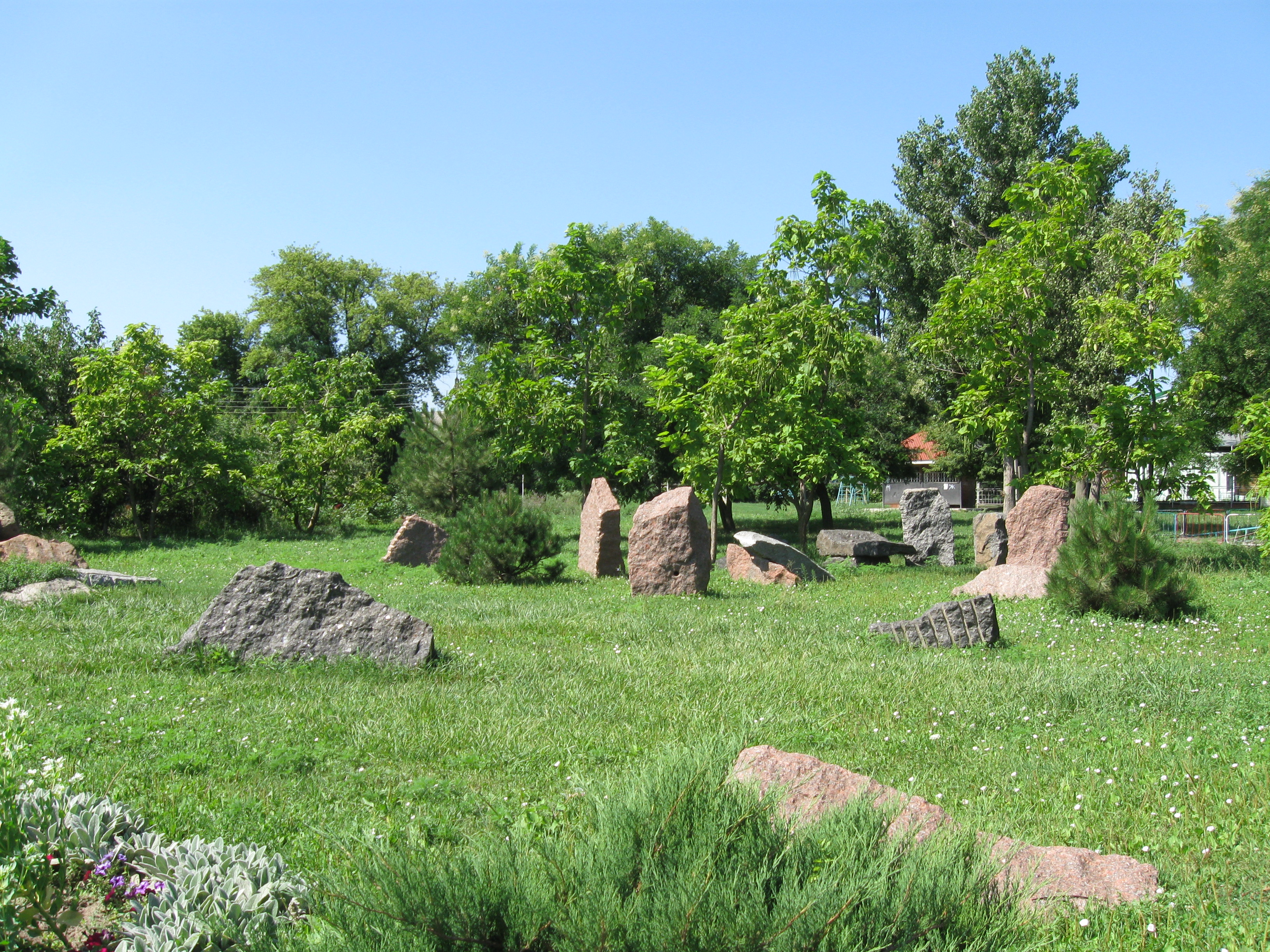 Balaya Glina . Russia.